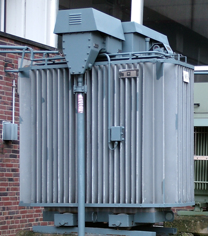 Photo of a transformer at an abandoned factory.